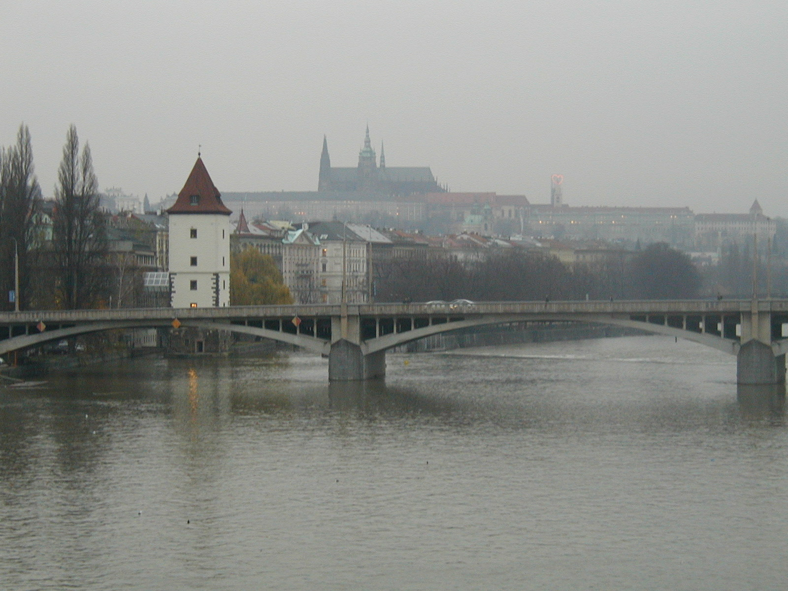 Vltava in Prague, in background Prague Castle with object "Srdce na Hradě" (Heart on the Castle) of Jiří David